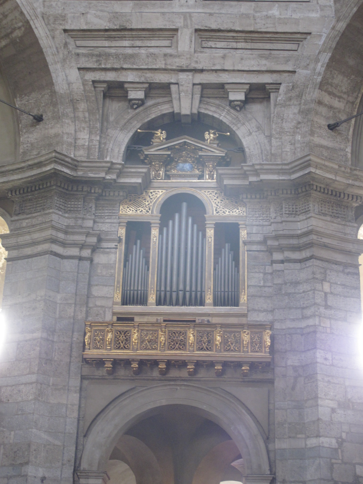 Inside, the Basilica di San Lorenzo Maggiore in Milan, Italy. Organ